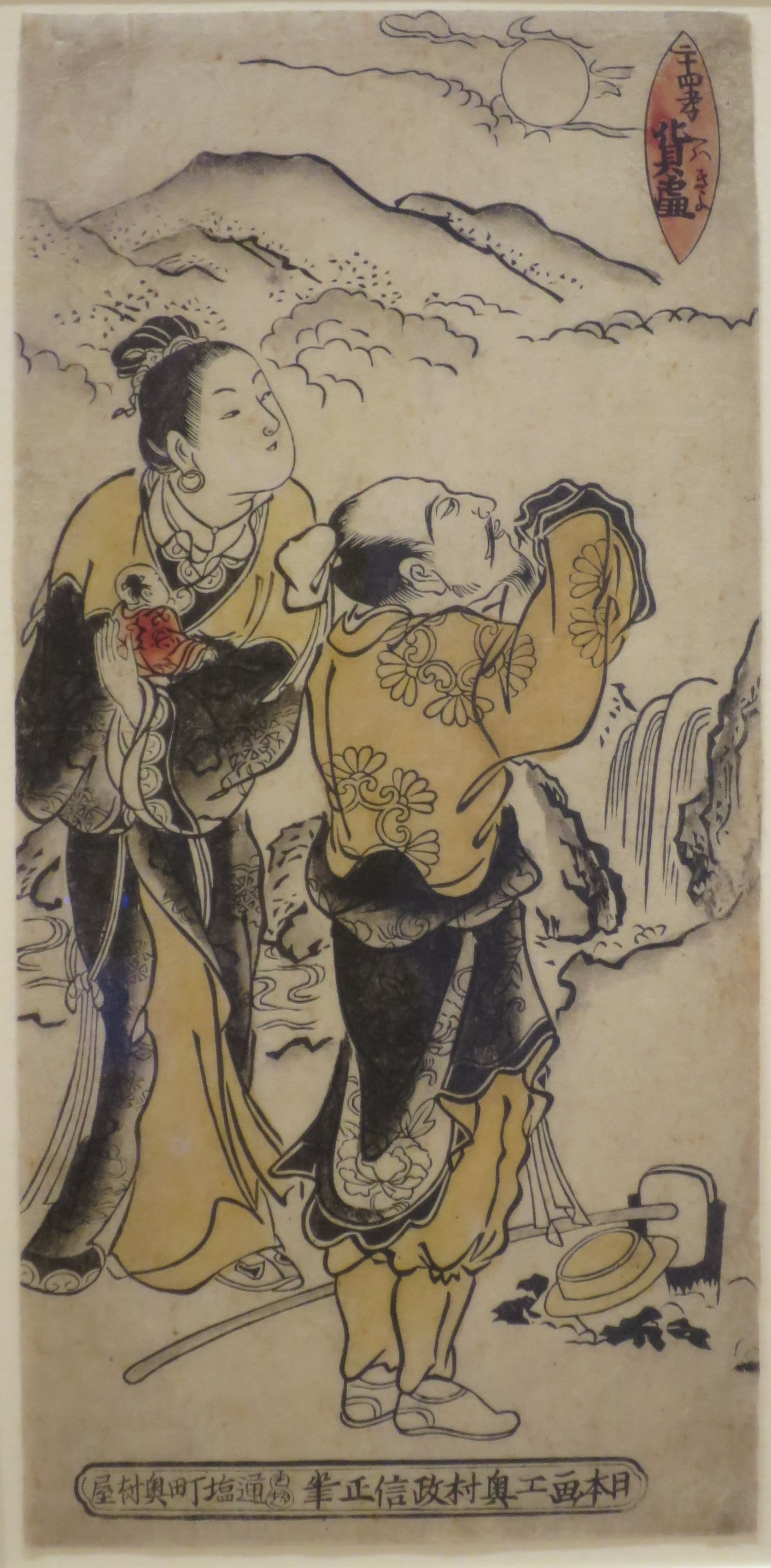 Guo Ju from the series Twenty-four Paragons of Filial Piety by Okumura Masanobu, early 1730s, woodblock print with hand-coloring, James Michener Collection, Honolulu Museum of Art accession 21665